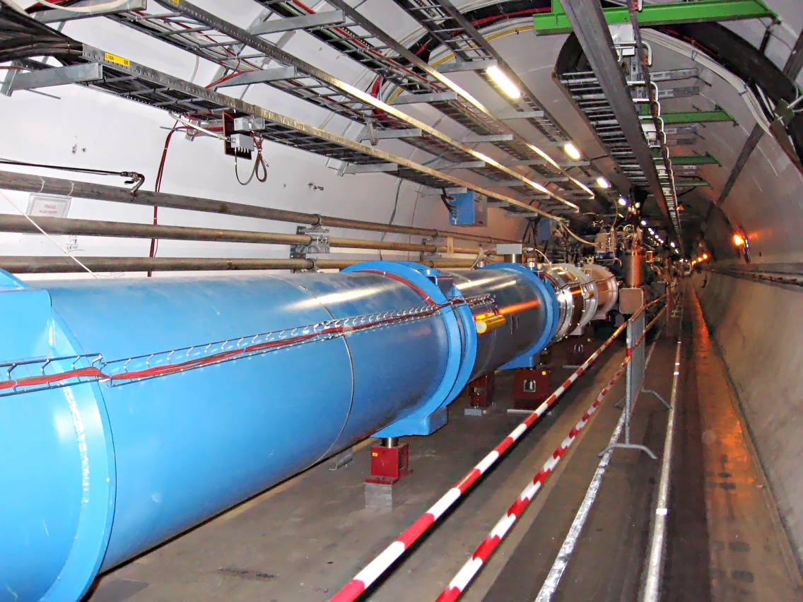 Tunnel of the Large Hadron Collider (LHC) of the European Organization for Nuclear Research ((French: Organisation européenne pour la recherche nucléaire), known as CERN) with all the Magnets and Instruments. The shown part of the tunnel is located under the LHC P8, near the LHCb.